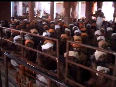 I took this photo graph.